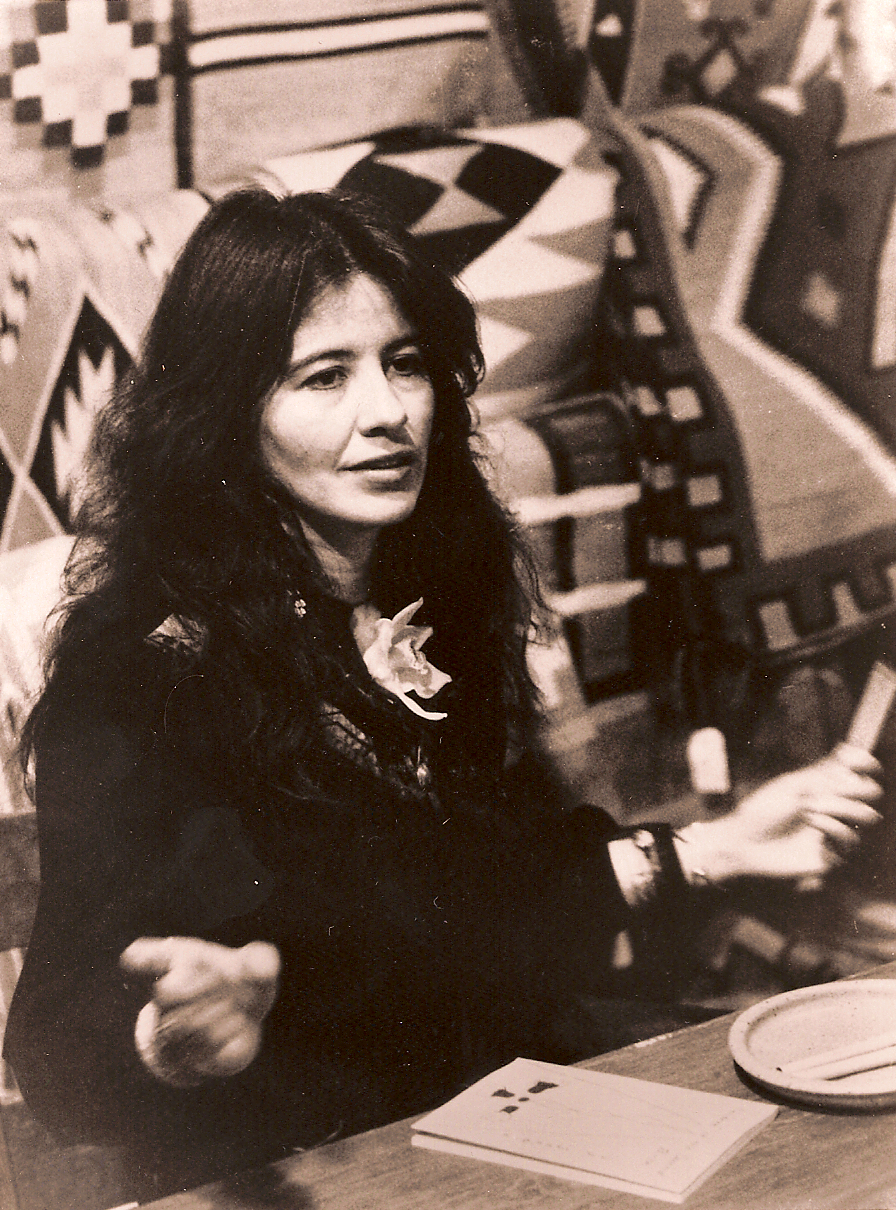 Joy Harjo